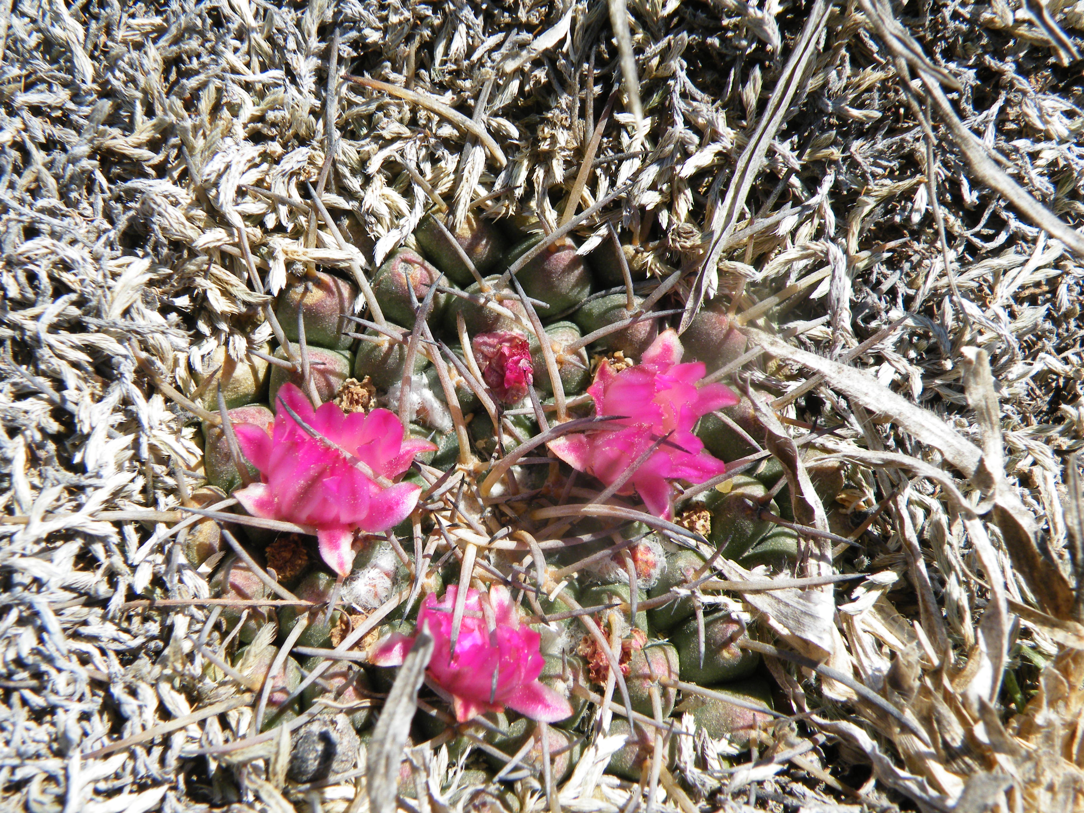 Turn off to Yerba Buena, Hidalgo